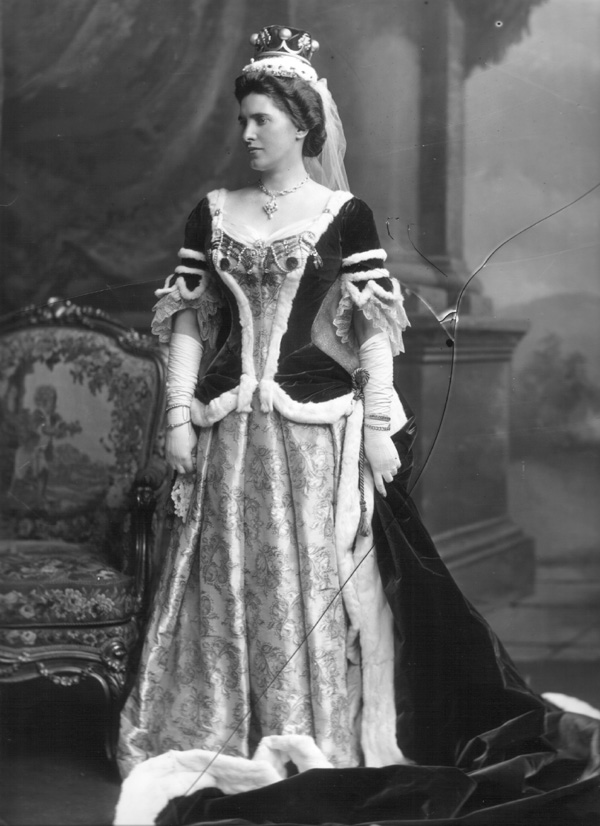 Isabella, Marchioness of Ailsa (d 1945), née MacMaster, photographed 11 August 1902. Coronation robes: "...with bows of gold on the kirtle, over a skirt of gold and white brocade in an exquisite rocaille design" (see: The Court Journal, 16 August 1902, p 13b)